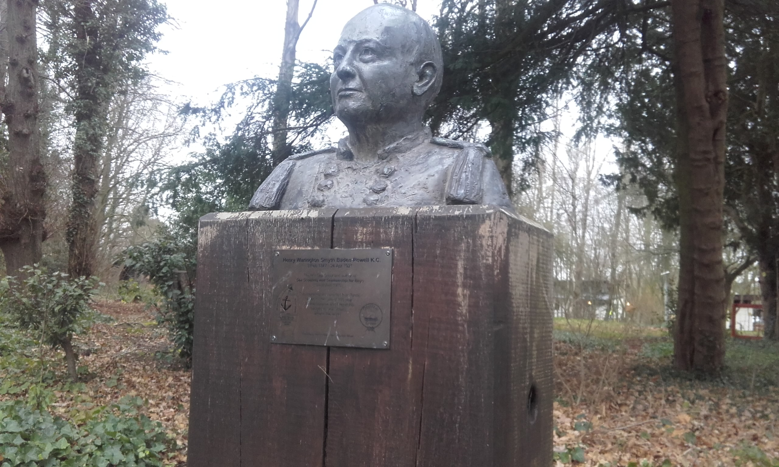 A bust commemorating Henry Warington Smyth Baden-Powell KC (3 February 1847 – 4 April 1921), the founder of Sea Scouting, at the UK Scout Association's headquarters, Gilwell Park in Essex.